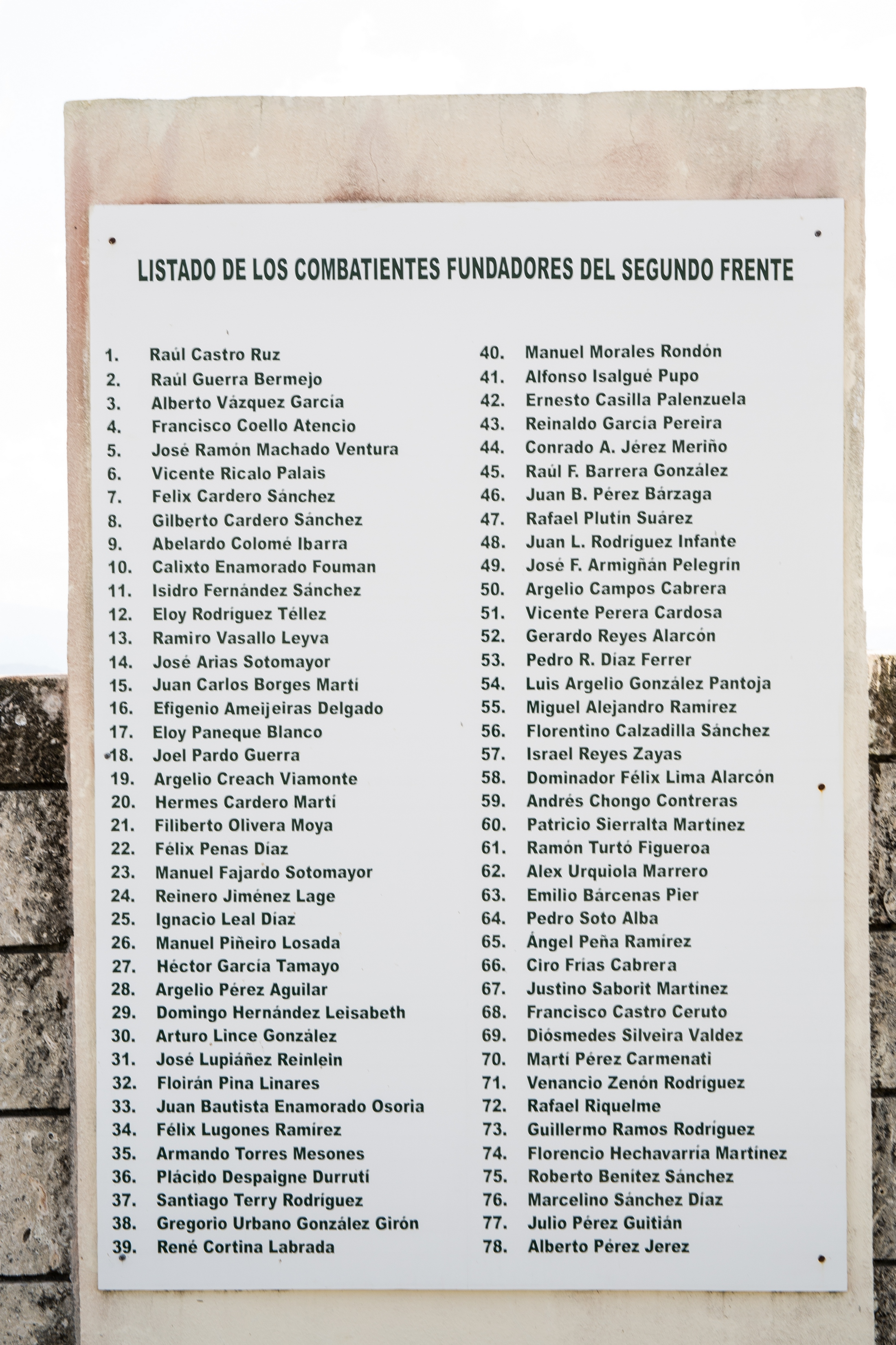 List of combatants of the 2nd front during the cuban revolution. Mayarí Arriba